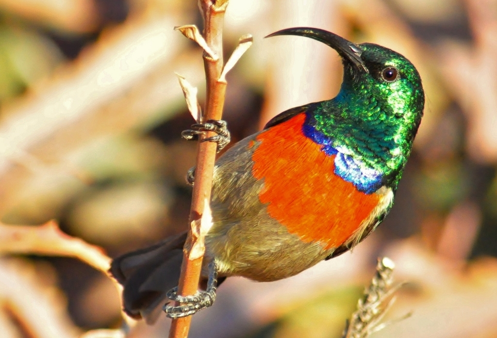 Taken by Gareth Rasberry, Vryheid, South Africa